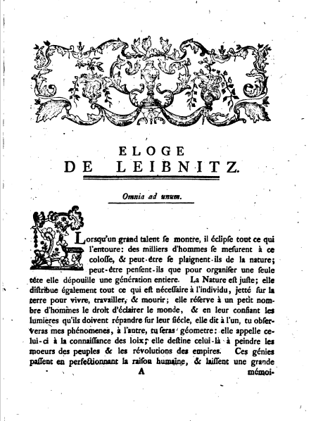 First page of the Eulogy of Leibniz by French astronomer Jean Sylvain Bailly (published in 1768).